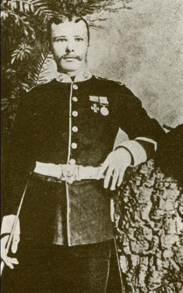 Photo of James Osborn